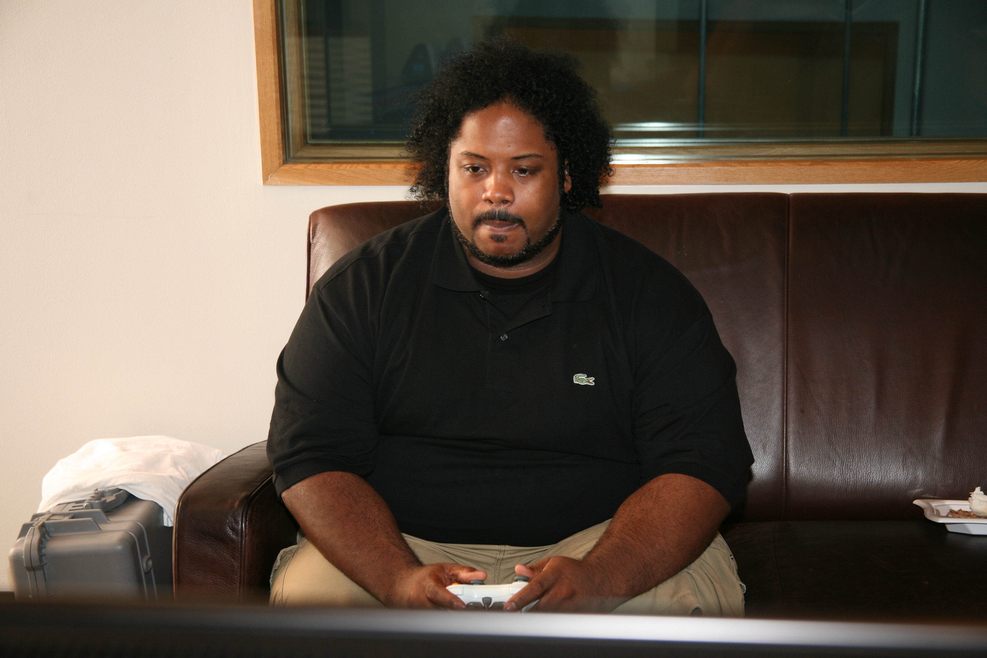 Bone Crusher, American rapper.